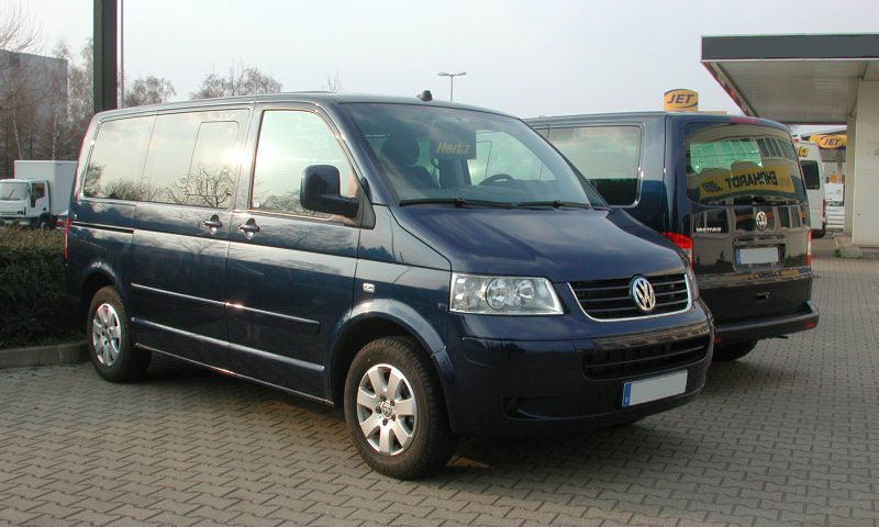 Volkswagen Eurovan T5 Multivan Two identical brand-new 2004 VW Multivans. This type of vehicle might be called "VW Eurovan" if and when it finally hits the United States.